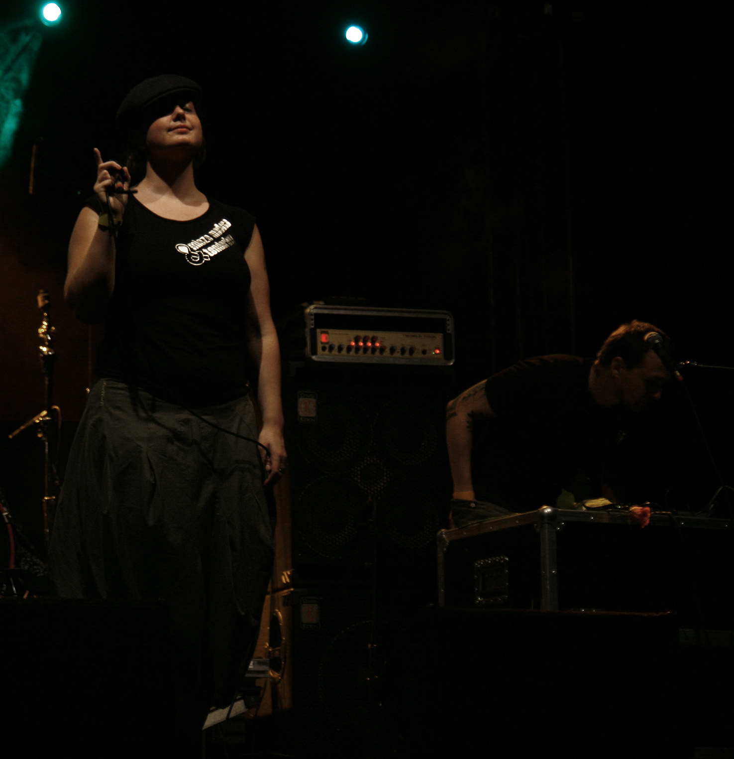 Austrian MCs Mieze Medusa & Tenderboy at the Donauinselfest 2008